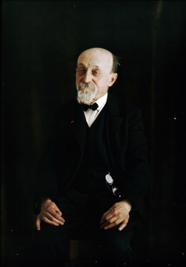 A picture of Loís Deucòs de Hauron